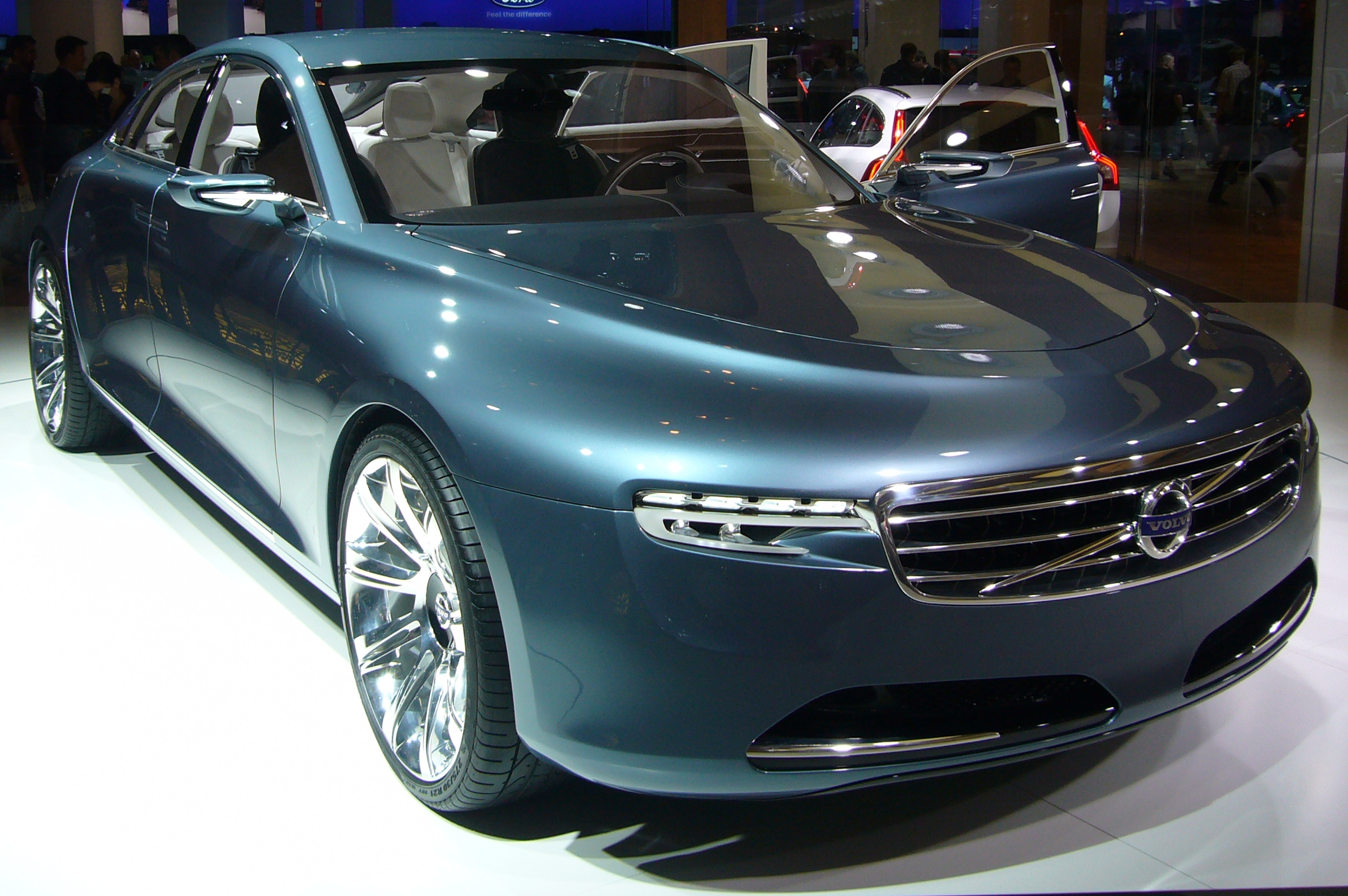 Volvo You Concept at IAA Frankfurt 2011.